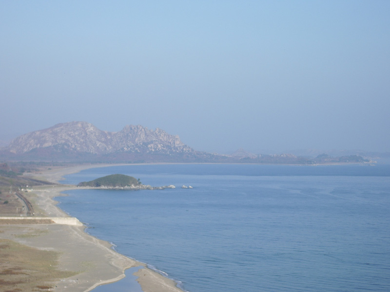 The turtle-shaped rock in the center left is the end of South Korean jurisdiction. The peaks in the distance, and the peninsula jutting to the right, are North Korea. The area in between is the Demilitarized Zone. On the peninsula there is a small village visible. I was told that it was an empty propaganda village, just like dozens of others North Korea maintains along the border. The beach looks lovely, and very inviting for a stroll. But it is safe to assume that landmines are everywhere down there, so even after permanent peace comes to the Korean peninsula, I can forget about a stroll down there.